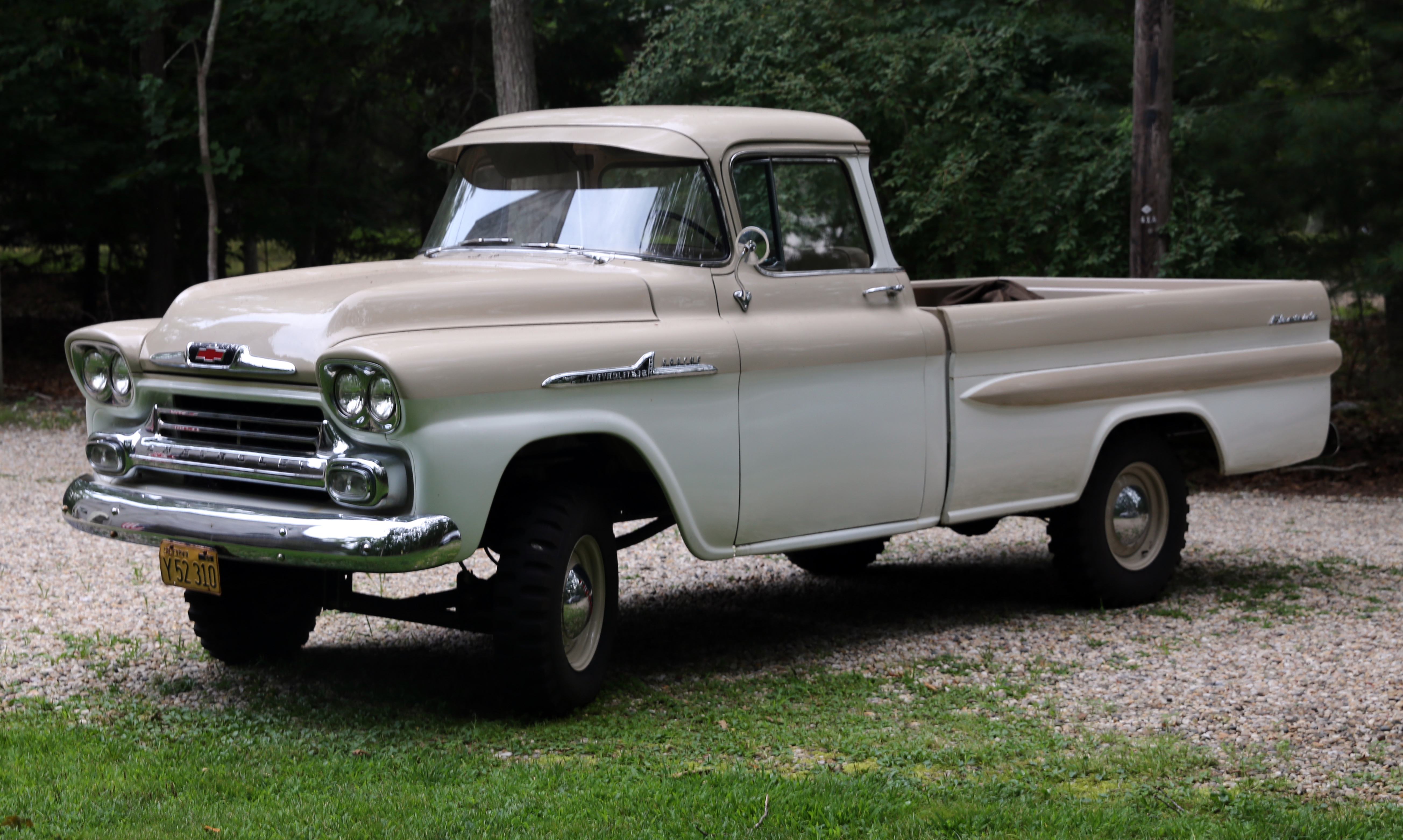 A 1958 Chevrolet Apache 31 NAPCO Power-Pak four-wheel-drive pickup truck. Sorry about the blur, didn't realize how dark this area was with all the trees.